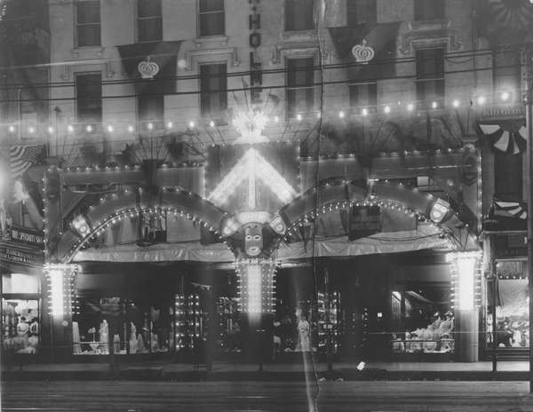 New Orleans Carnival, 1906. Buildings in the Central Business District decorated for the Mardi Gras season. D. H. Holmes Department Store front, Canal Street. Part of series of photos taken on Lundi Gras night, probably before or after the Proteus Parade.